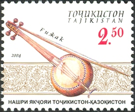 Stamps of Tajikistan